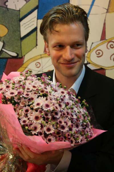 Photo of Philipp Richardsen, a Pianoist, taken in 2008